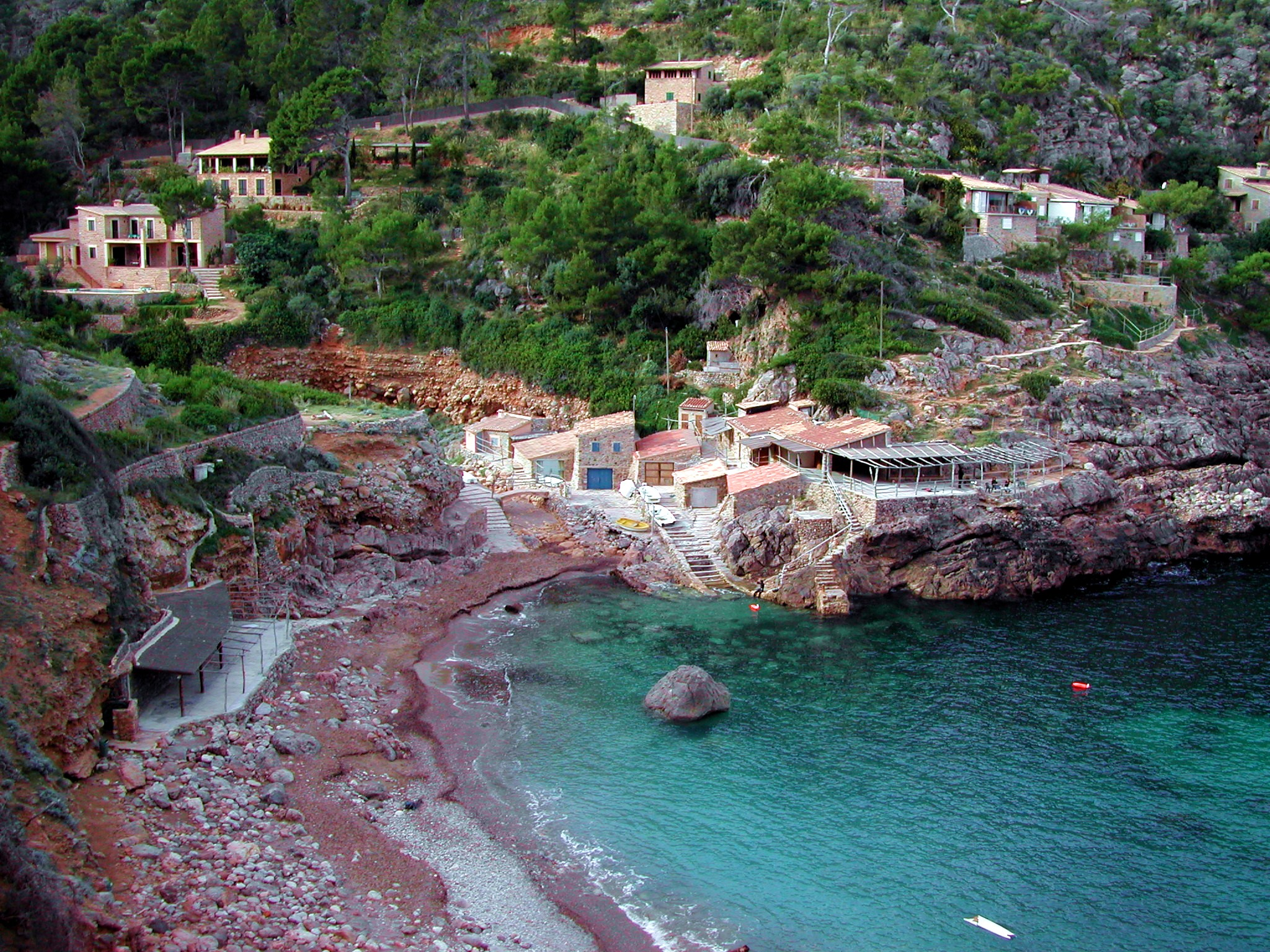 Cala Deià sight, Mallorca.